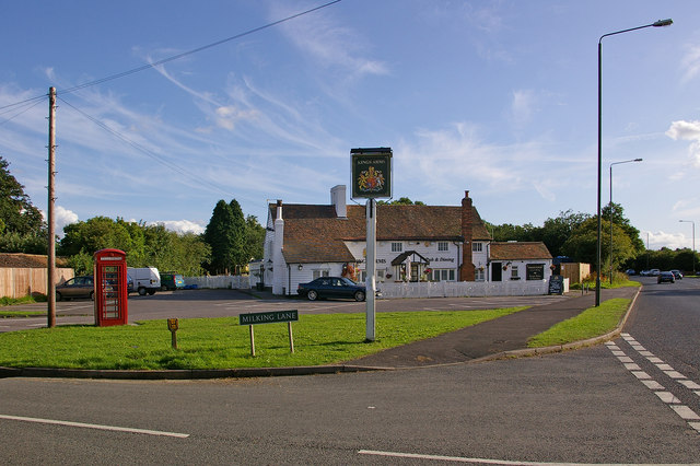 The King's Arms At the junction of Leaves Green Road, this grade II listed pub has stood here since at least the 18th century. For listing particulars, The pub is very popular during the annual Biggin Hill Airshow, as its large garden backs onto the Airfield. The phone box, of George Gilbert Scott's K6 design, is also grade II listed.